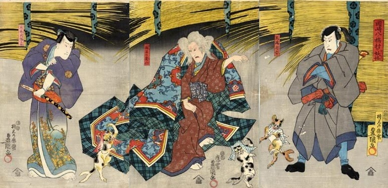 Woodblock print, kabuki triptych by Utagawa Kunisada I (here signed with Toyokuni): the actors (from left) Ichimura Uzaemon XII, Onoe Baijiu (Onoe Kikugorō III), Sawamura Sōjūrō V, play ’Onoe Kikugoro uichidai banashi’, performed at Ichimura theatre in 7/1847